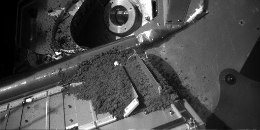 The Robotic Arm of NASA's Phoenix Mars Lander released a sample of Martian soil onto a screened opening of the lander's Thermal and Evolved-Gas Analyzer (TEGA) during the 12th Martian day, or sol, since landing (June 6, 2008). TEGA did not confirm that any of the sample had passed through the screen. The Robotic Arm Camera took this image on Sol 12. Soil from the sample delivery is visible on the sloped surface of TEGA, which has a series of parallel doors. The two doors for the targeted cell of TEGA are the one positioned vertically, at far right, and the one partially open just to the left of that one. The soil between those two doors is resting on a screen designed to let fine particles through while keeping bigger ones from clogging the interior of the instrument. Each door is about 10 centimeters (4 inches) long.